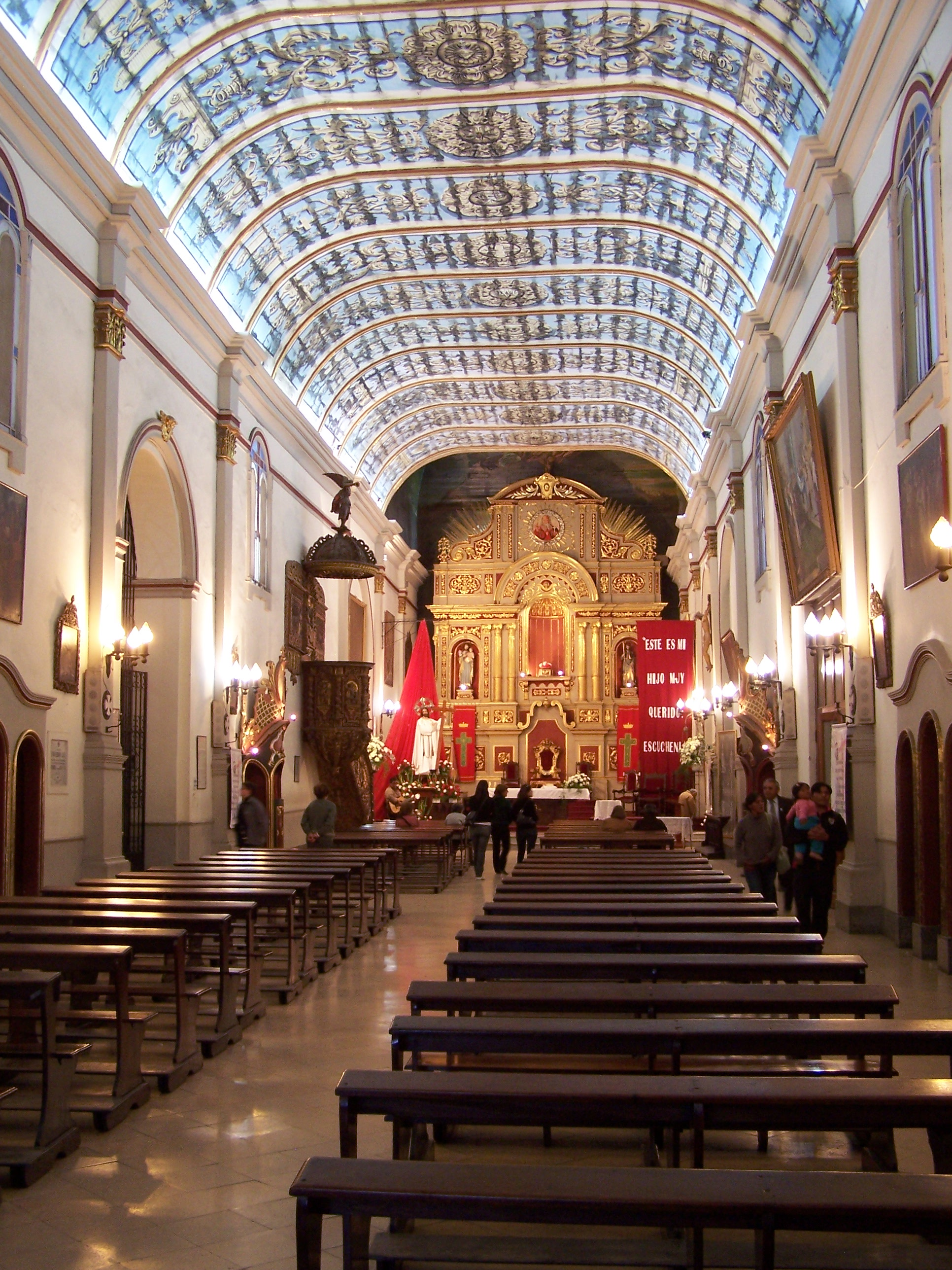 JujuyCathedralInside